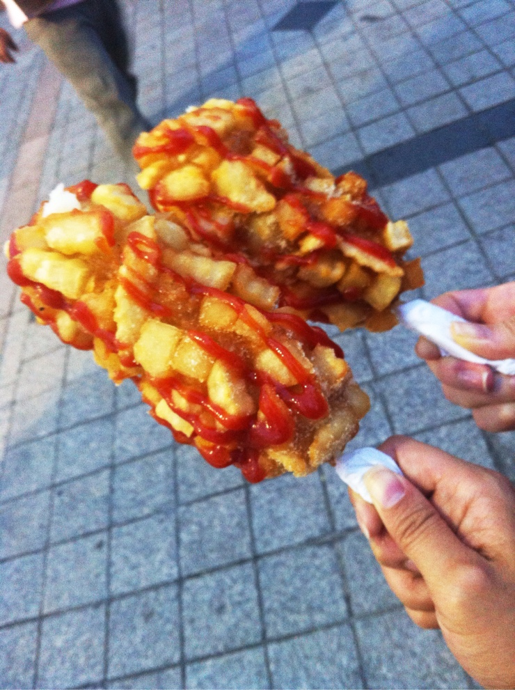 potato corn dog,Dong dae mun in South Korea.